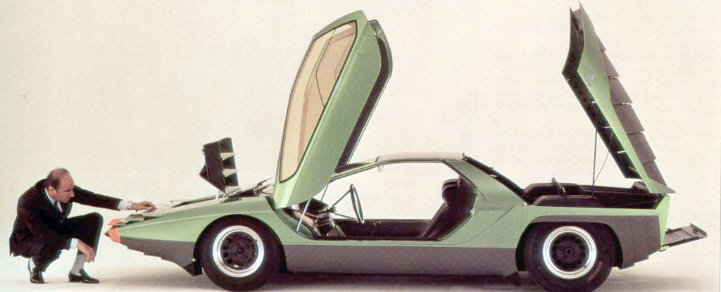 The 1968 Alfa Romeo Carabo and designer Nuccio Bertone